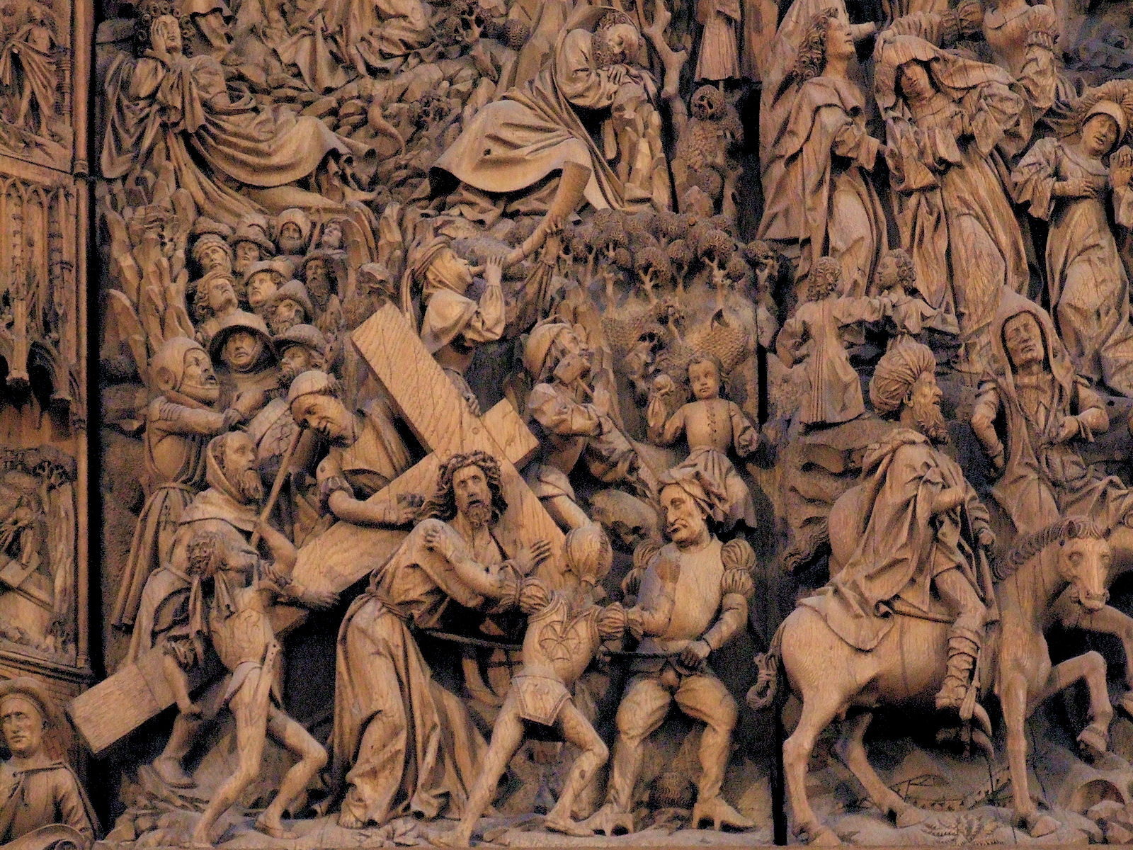 Hochaltar. Sankt Nicolai, Kalkar, Nordrhein-Westfalen High altar - Altars of the Crucifixion of Christ - Detail. Church of Saint Nicholas, Kalkar, in North Rhine-Westphalia, Germany